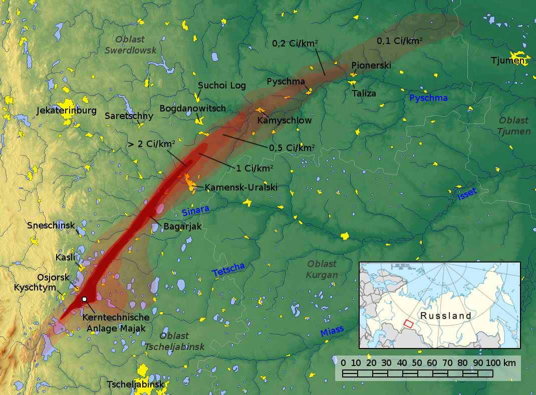 Map of the East Urals Radioactive Trace (EURT): area contaminated by the Kyshtym disaster